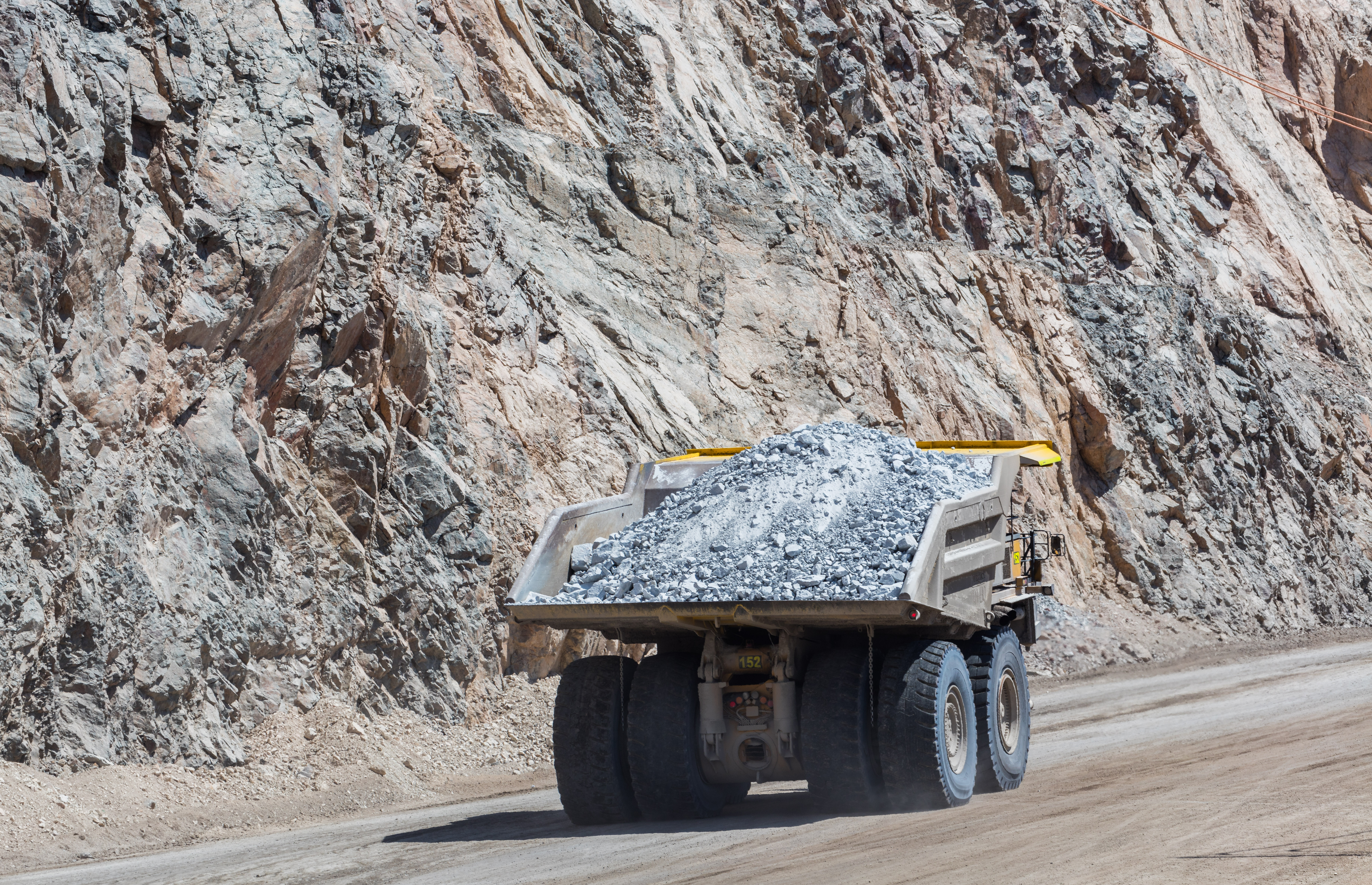 Komatsu haul truck, Chuquicamata Mine, Calama, Chile